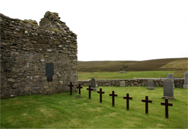 Graves of eight Norwegian sailors at St Olaf's Church near Balliasta on Unst (Shetland)